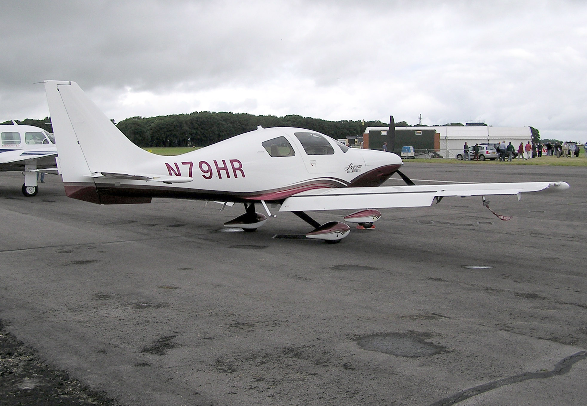 Columbia 400 (US registration N79HR) at Kemble Airfield, Gloucestershire, England. Also known as LC41-550FG. Date of manufacture (approx) 2004. Photographed by Adrian Pingstone in July 2005 and placed in the public domain.